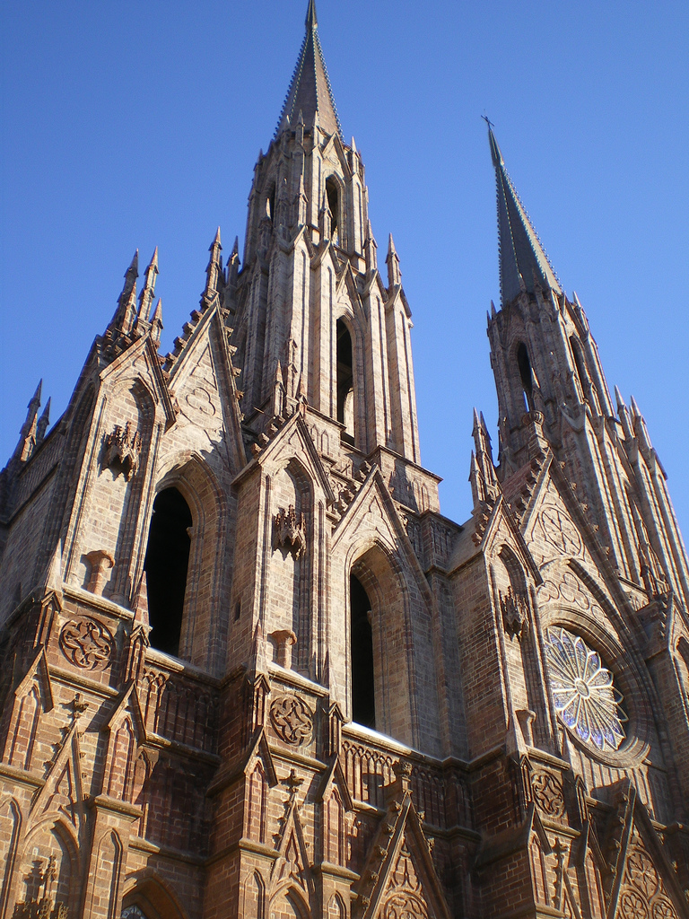 Torres del santuario